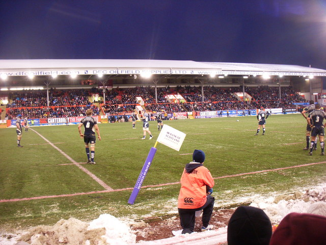 North stand, a snowy Pittodrie stadium Scotland v Canada rugby international. Scotland won!!